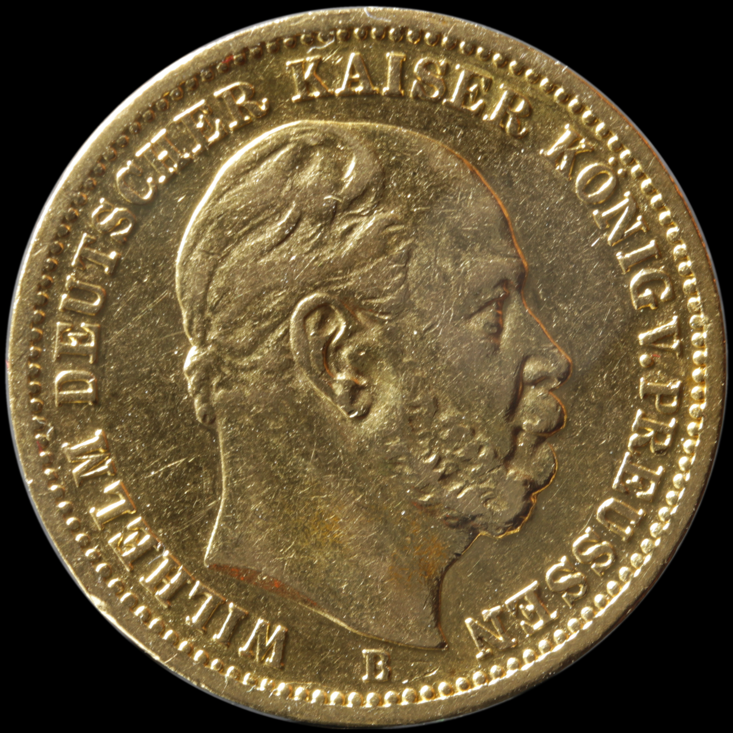 20 Mark gold coin 1873, German Emperor William I King of Prussia